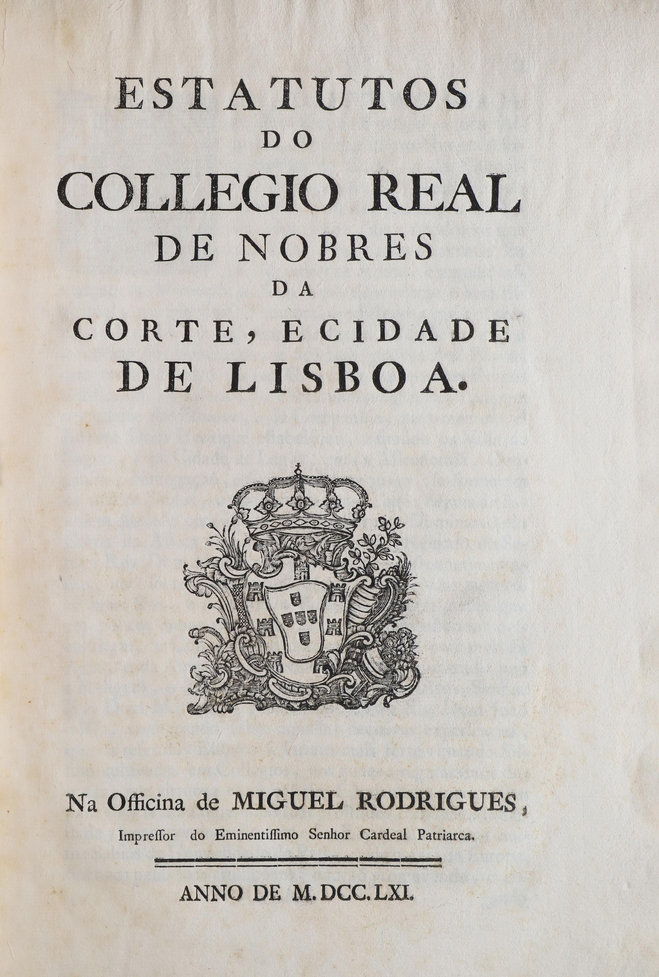 Title page of the Statues of the Royal College of Nobles, Lisbon, 1761.